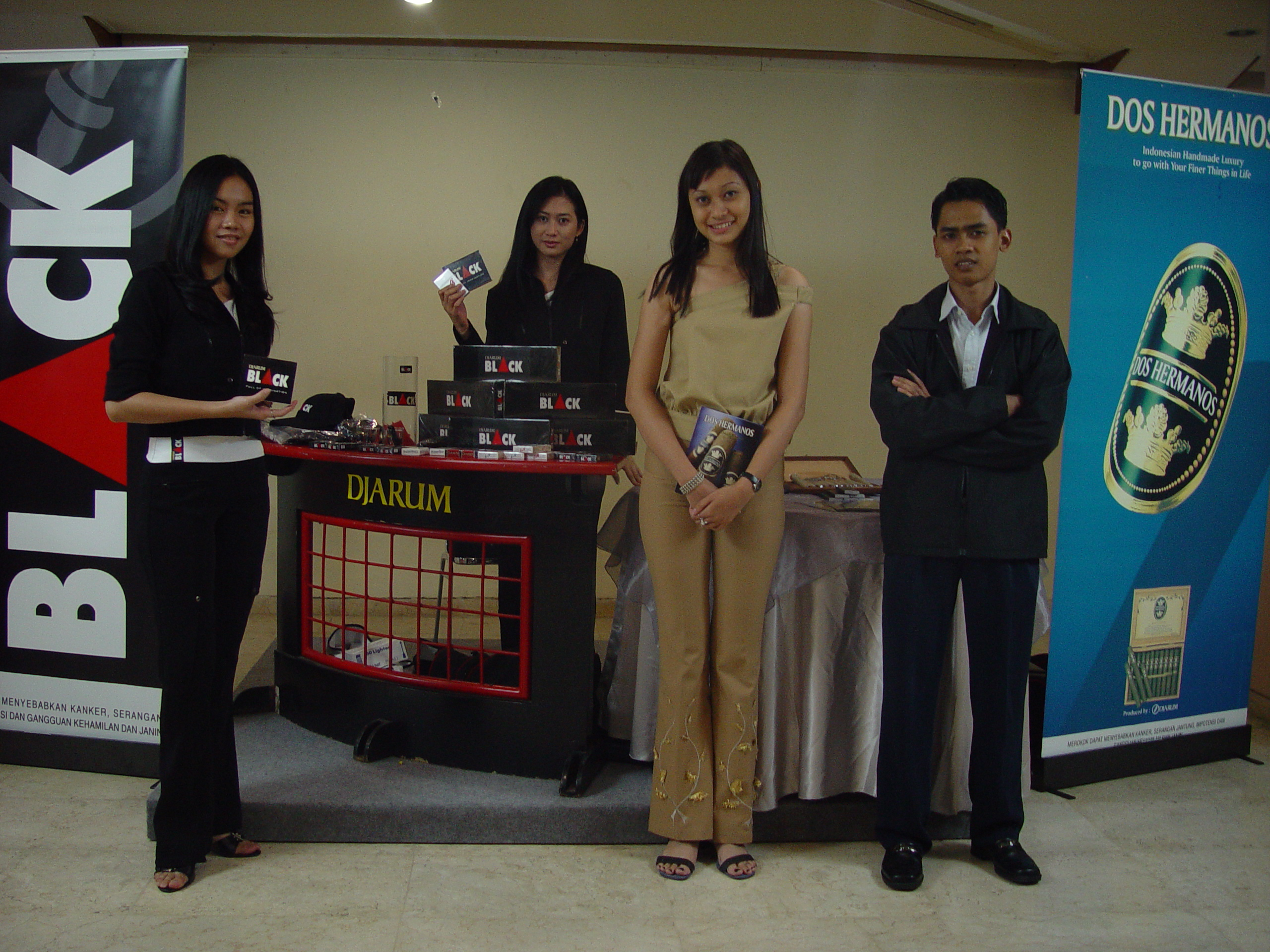 Mall cultural in Jakarta, Indonesia.